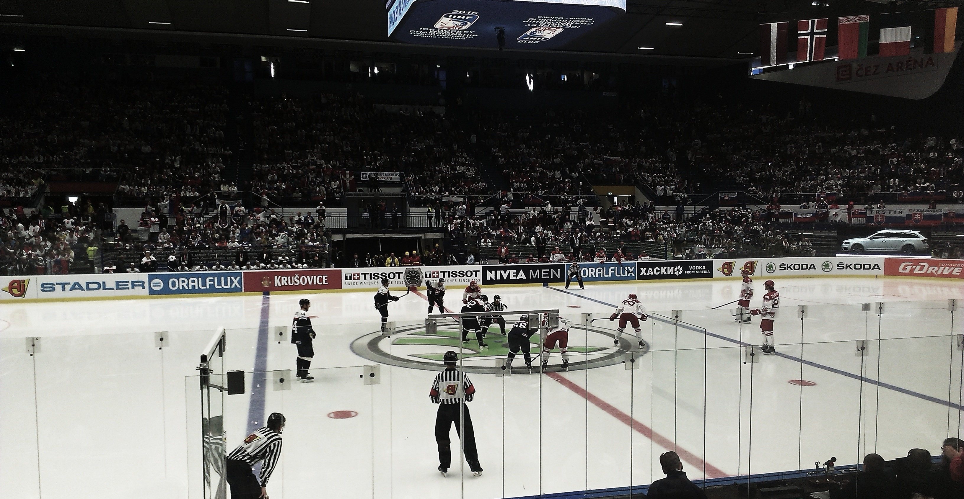 Slovakia - Denmark, 2015 IIHF World Championships.